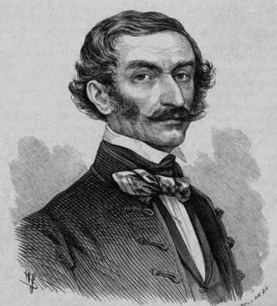 Portrait of Márk Rózsavölgyi